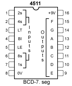 Author: Philip Withnall ([Mr]DrBob) Website: [1]